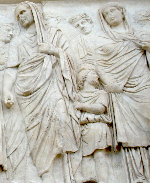 Agrippa on the Ara Pacis with Oriental royalty (?).